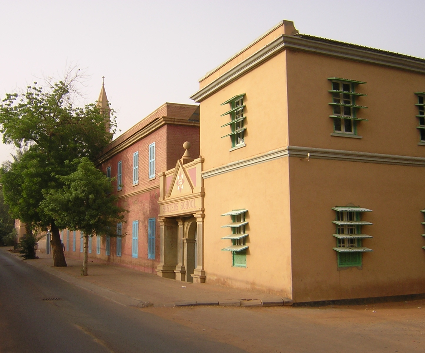 Sisters' School, Khartoum, Sudan.